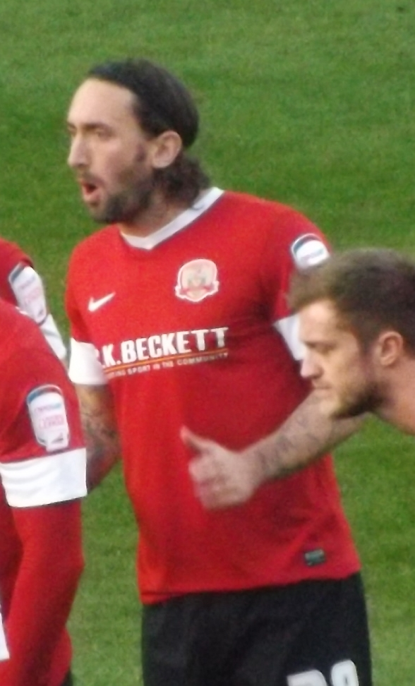 Jonathan Greening playing for Barnsley against Leicester City at the King Power Stadium, Leicester on 8 December 2012